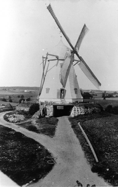 Vubtage photo of Tibberup Mølle in Tibberup, Helsingør, Denmark